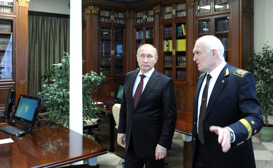 Vladimir Putin visiting the Mining University. With University’s Rector Vladimir Litvinenko.